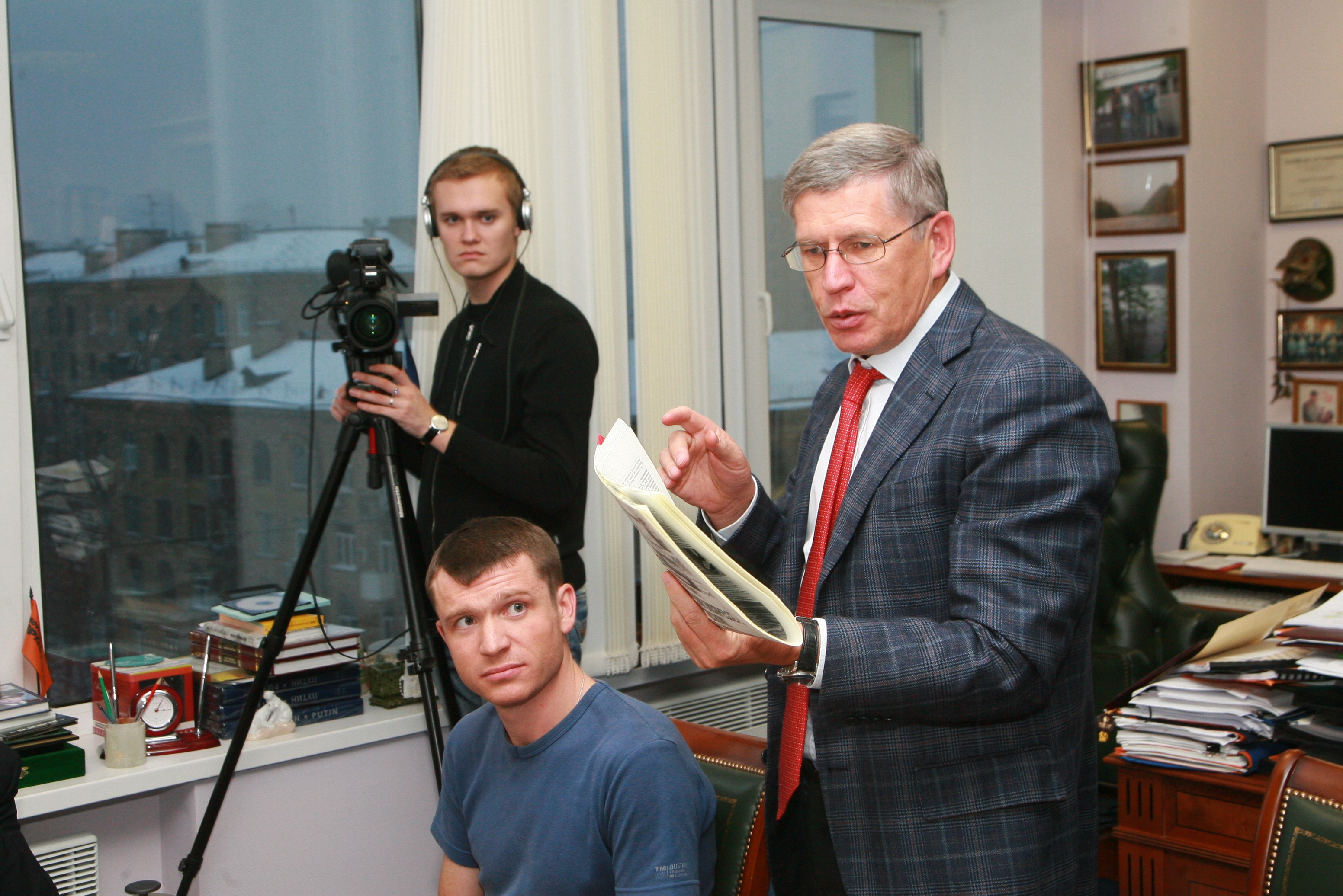 Russian Editor Sungorkin in "Komsomolskaya pravda"